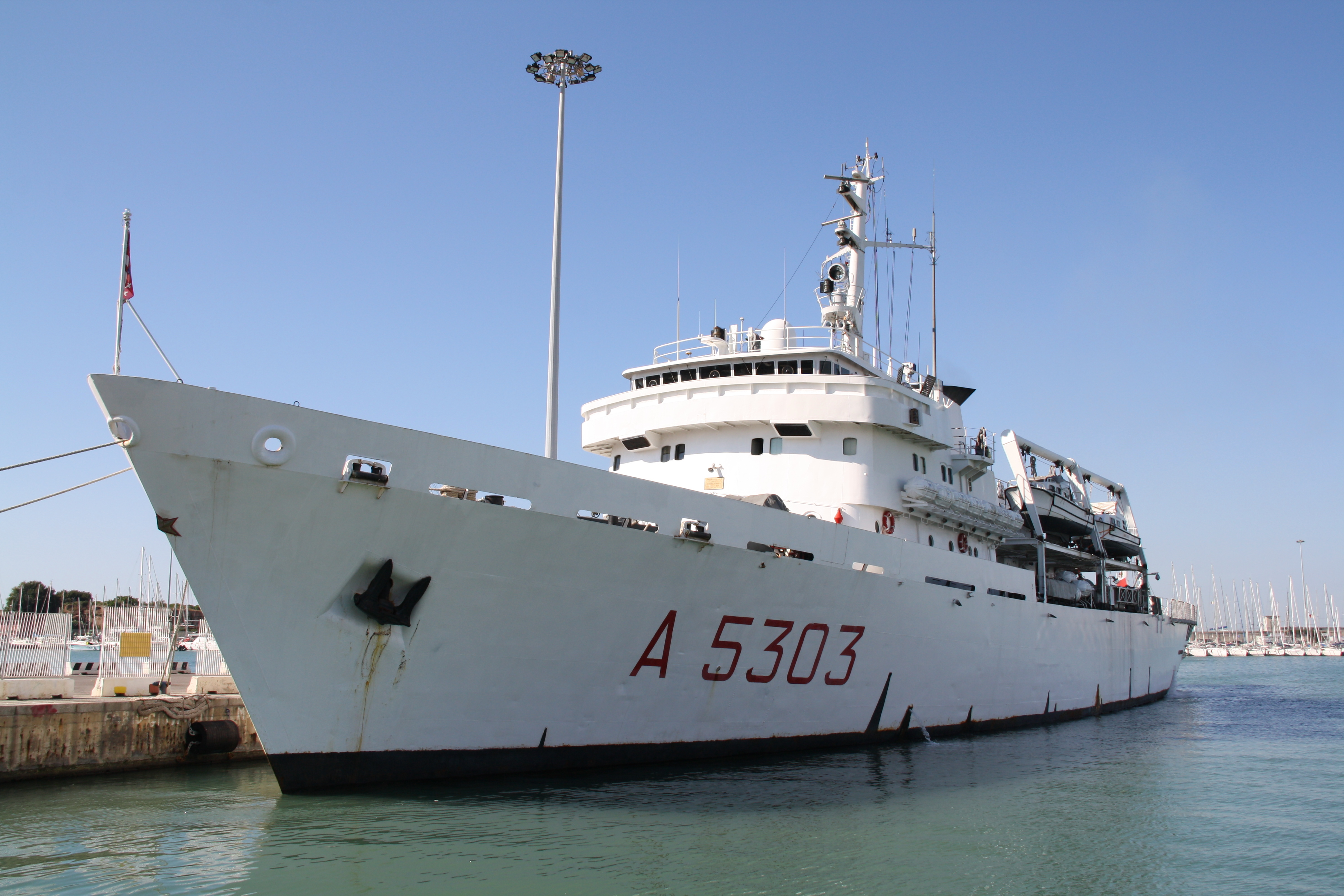 Italy, Marina Militare. The oceanographic ship Magnaghi (A 5303) is the first of this kind to be designed and built in Italy for the Marina Militare. Built by Riunited Shipyards at Riva Trigoso has been launched on October 8, 1974, completed and entered in service on May 2, 1975. In 1990 underwent complete modernization. Here is berthed in the Port of Livorno at “Andana degli Anelli” wharf of “Porto Mediceo”.